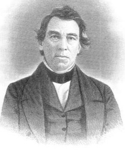 Dudley Marvin, Congressman from New York